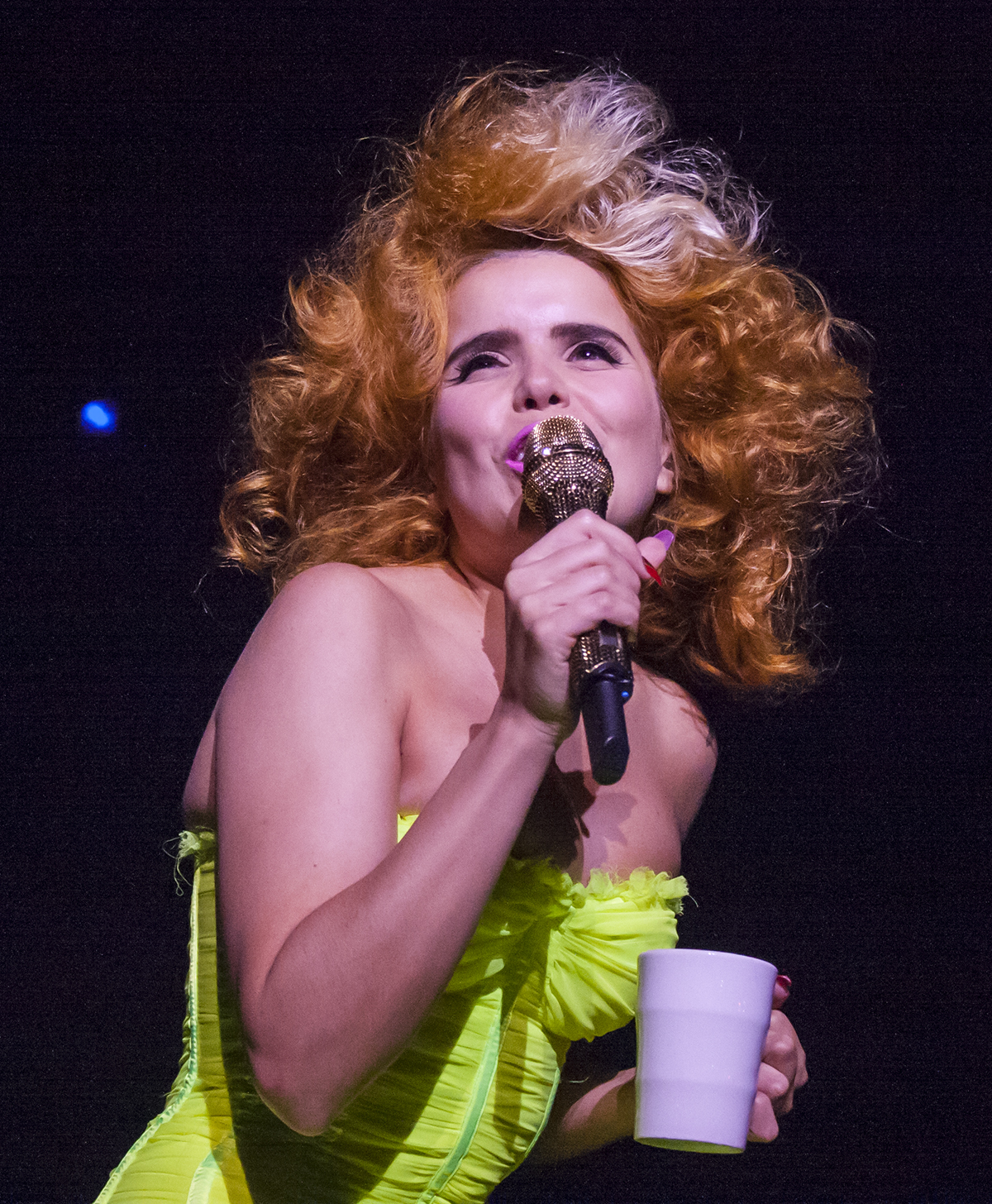 Paloma Faith singing at the O2 Apollo Manchester on 23 January 2013.